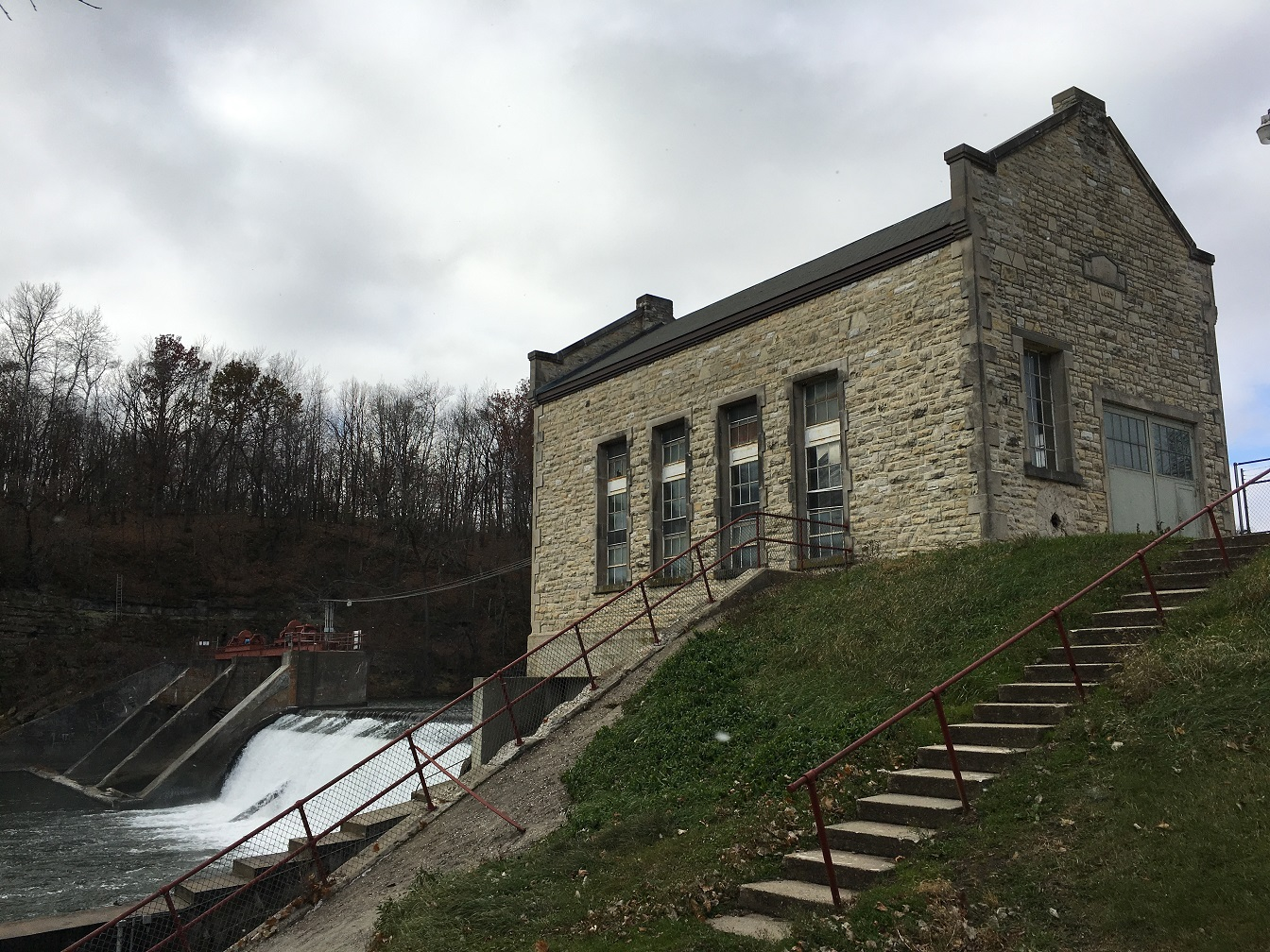 Mitchell Powerhouse and Dam Site is currently a County park and may have some utilitarian function.